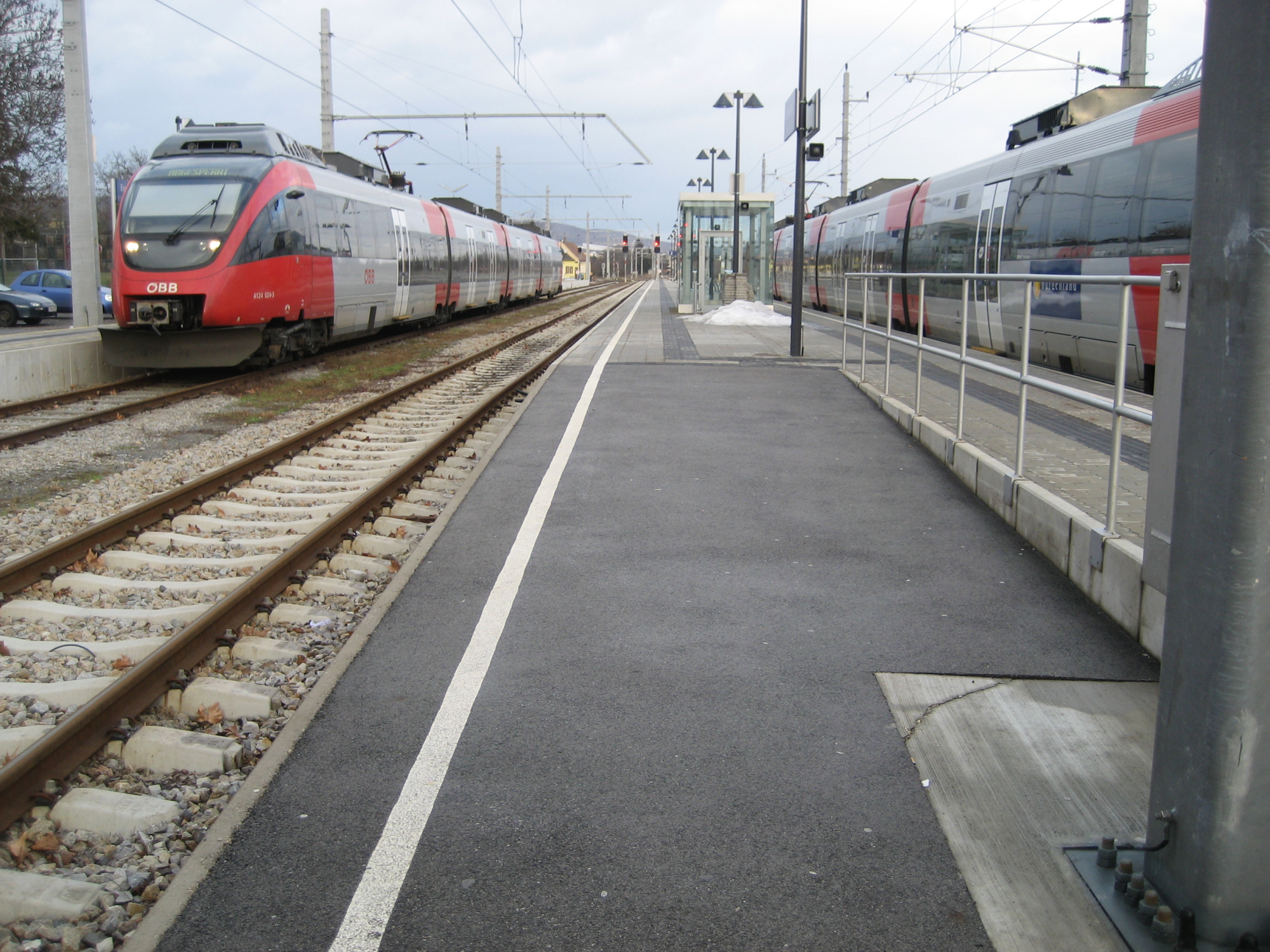 train station Eisenstadt in Burgenland